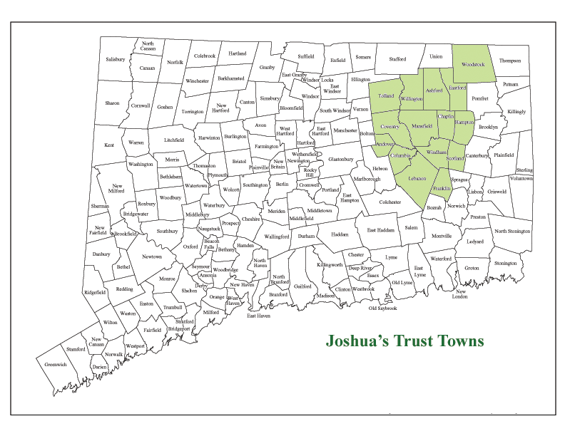 Towns in CT where Joshua's Tract Conservation and Historic Trust owns property or easements.